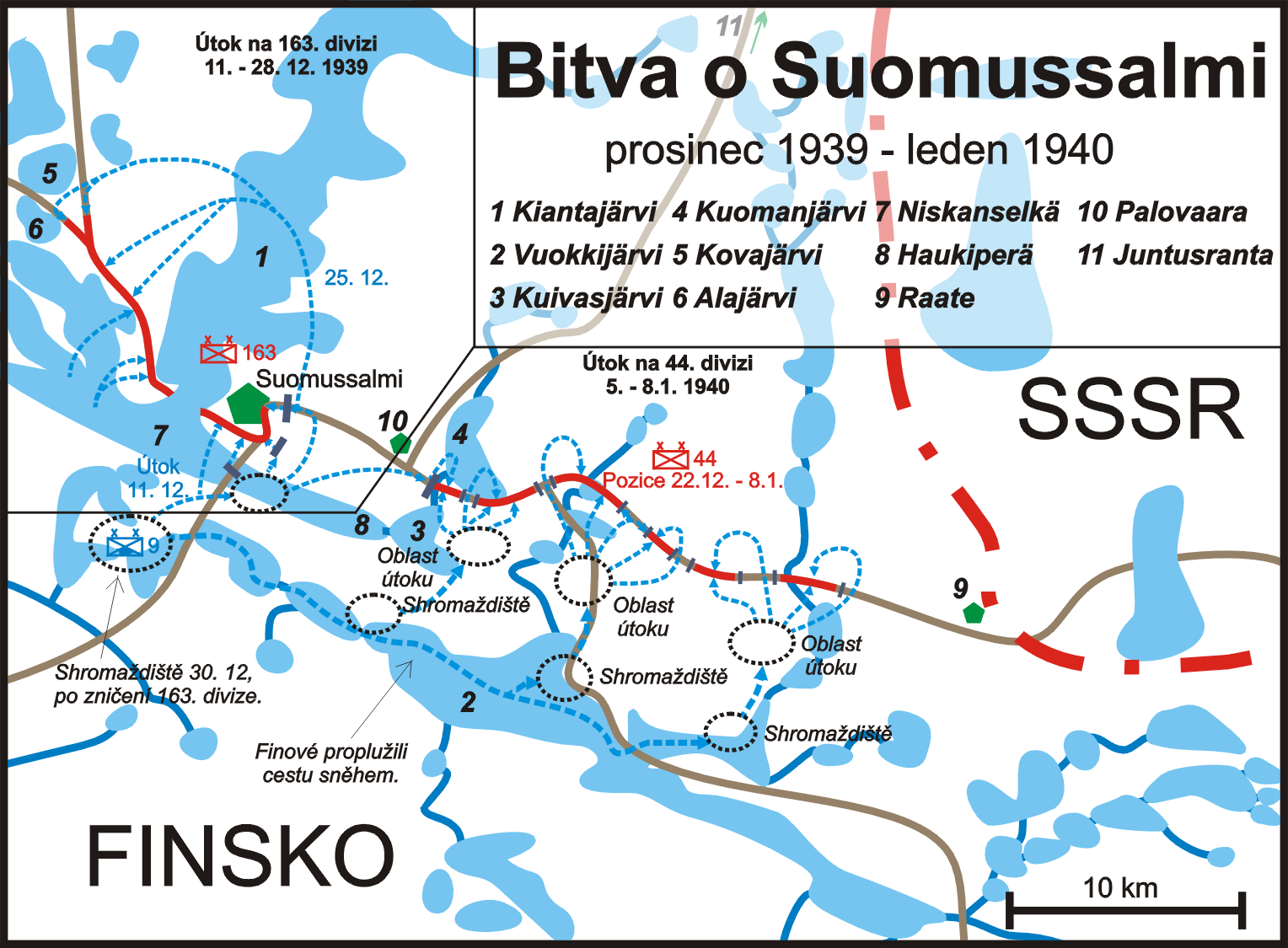 Czech map of the Battle of Suomussalmi.